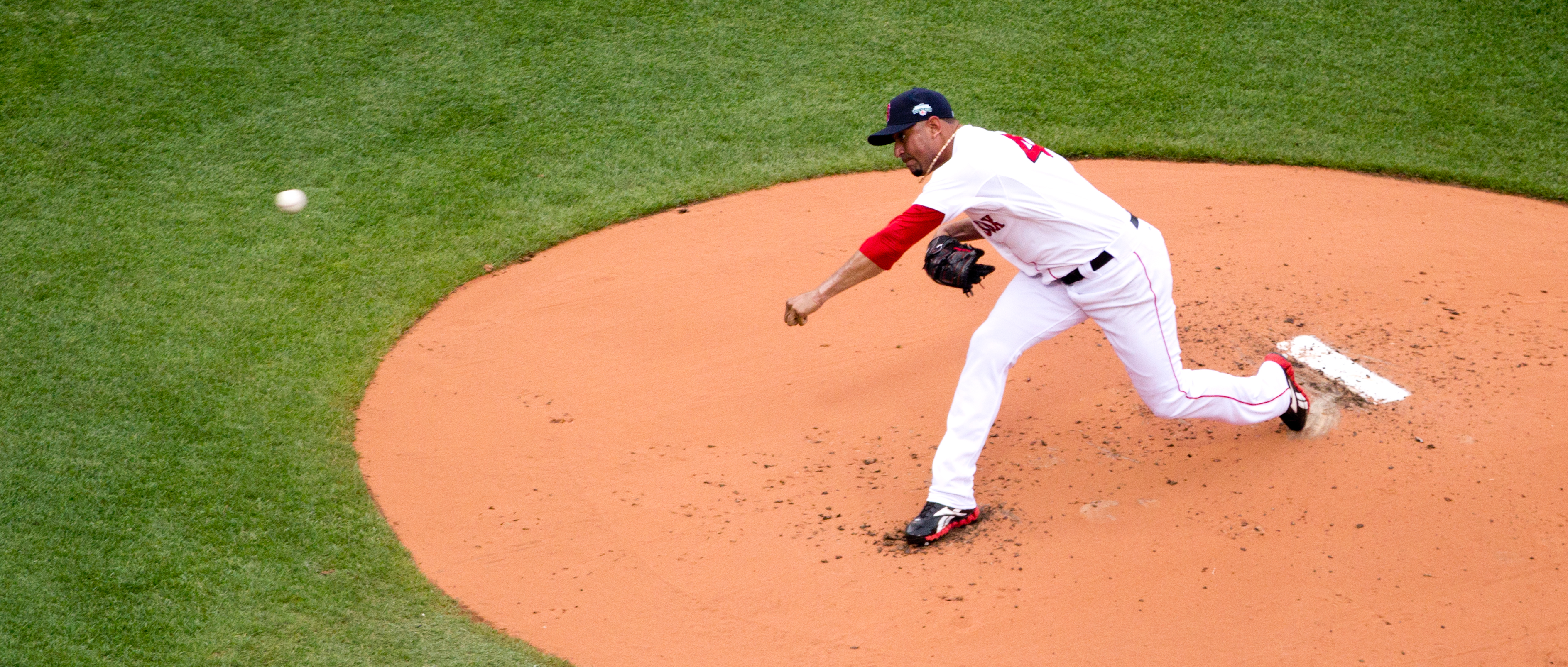 Red Sox Yankees Game Boston July 2012